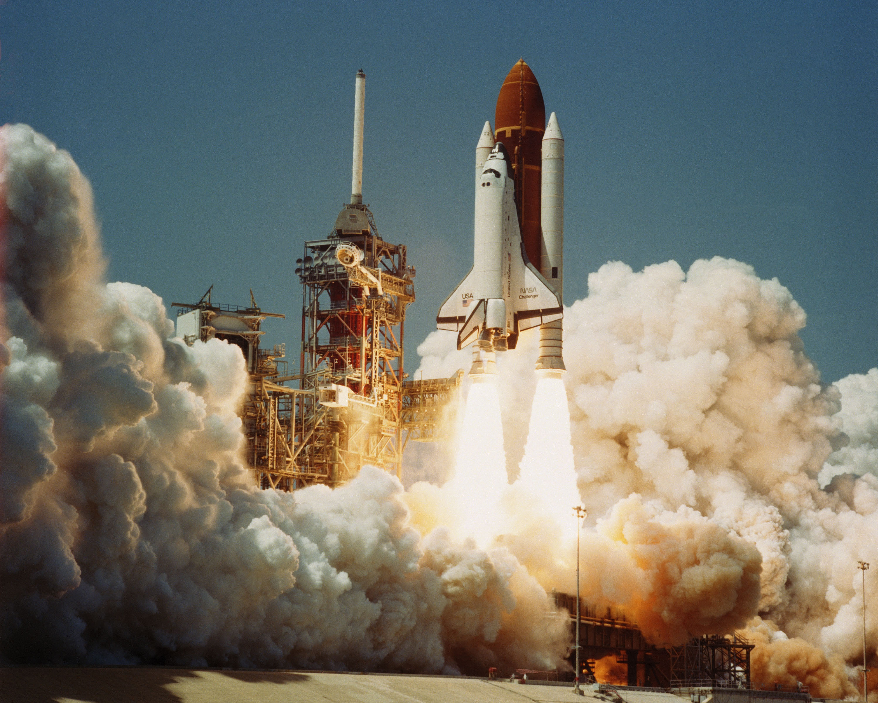 Space Transportation System Number 6, Orbiter Challenger, lifts off from Pad 39A carrying astronauts Paul J. Weitz, Koral J. Bobko, Donald H. Peterson and Dr. Story Musgrave.